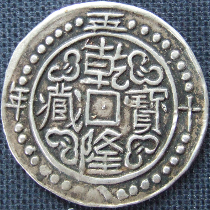 Sino-Tibetan tangka, dated year 58 of Qian Long era, obverse